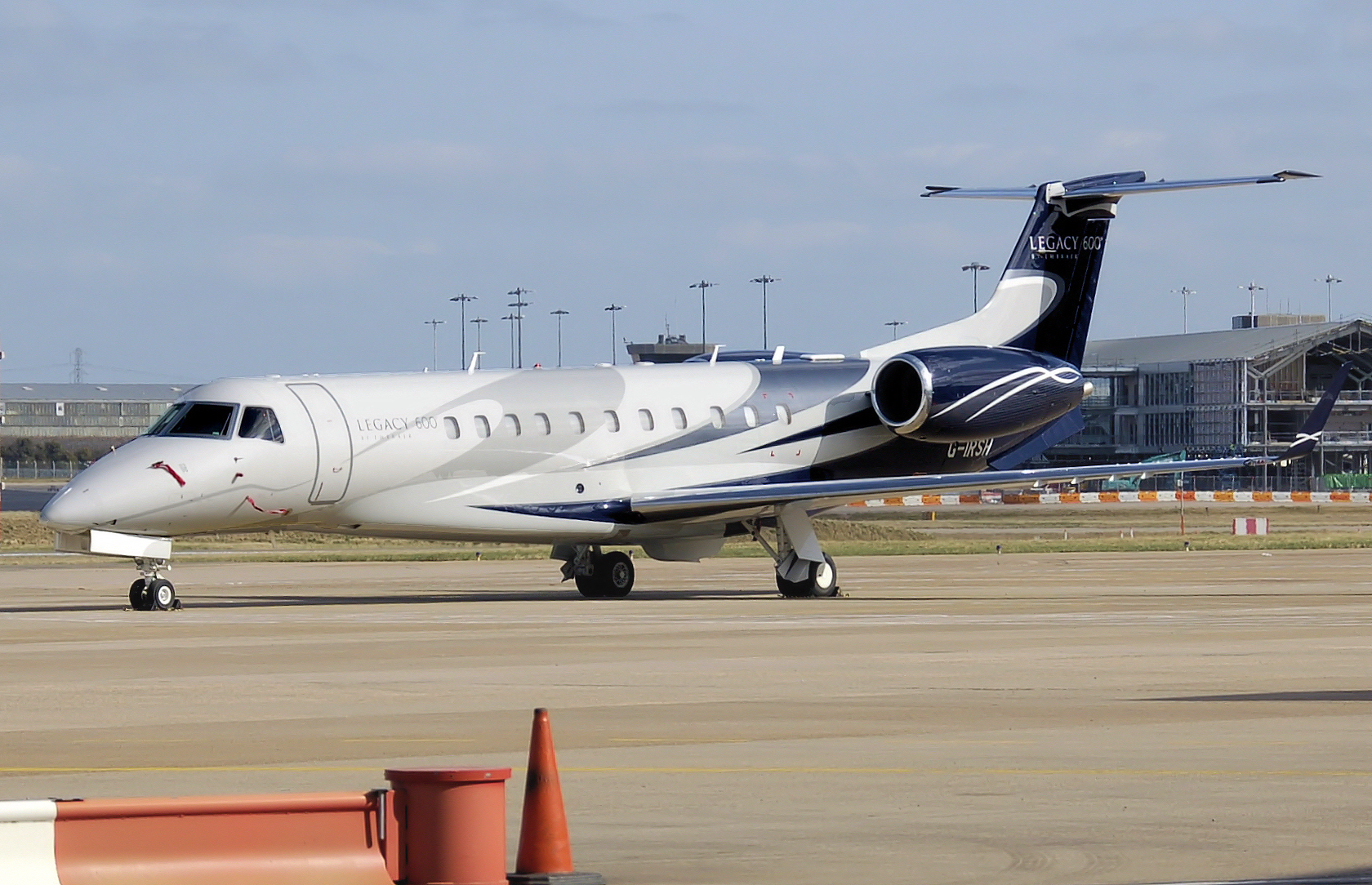 Embraer ERJ-135B Legacy 600 business jet at Birmingham International Airport, England.